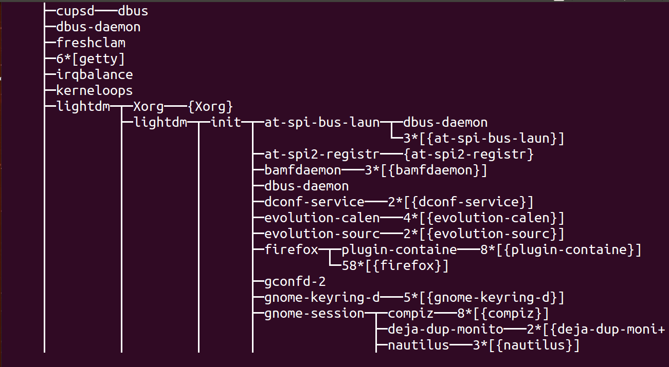 pstree output in Ubuntu 14.04